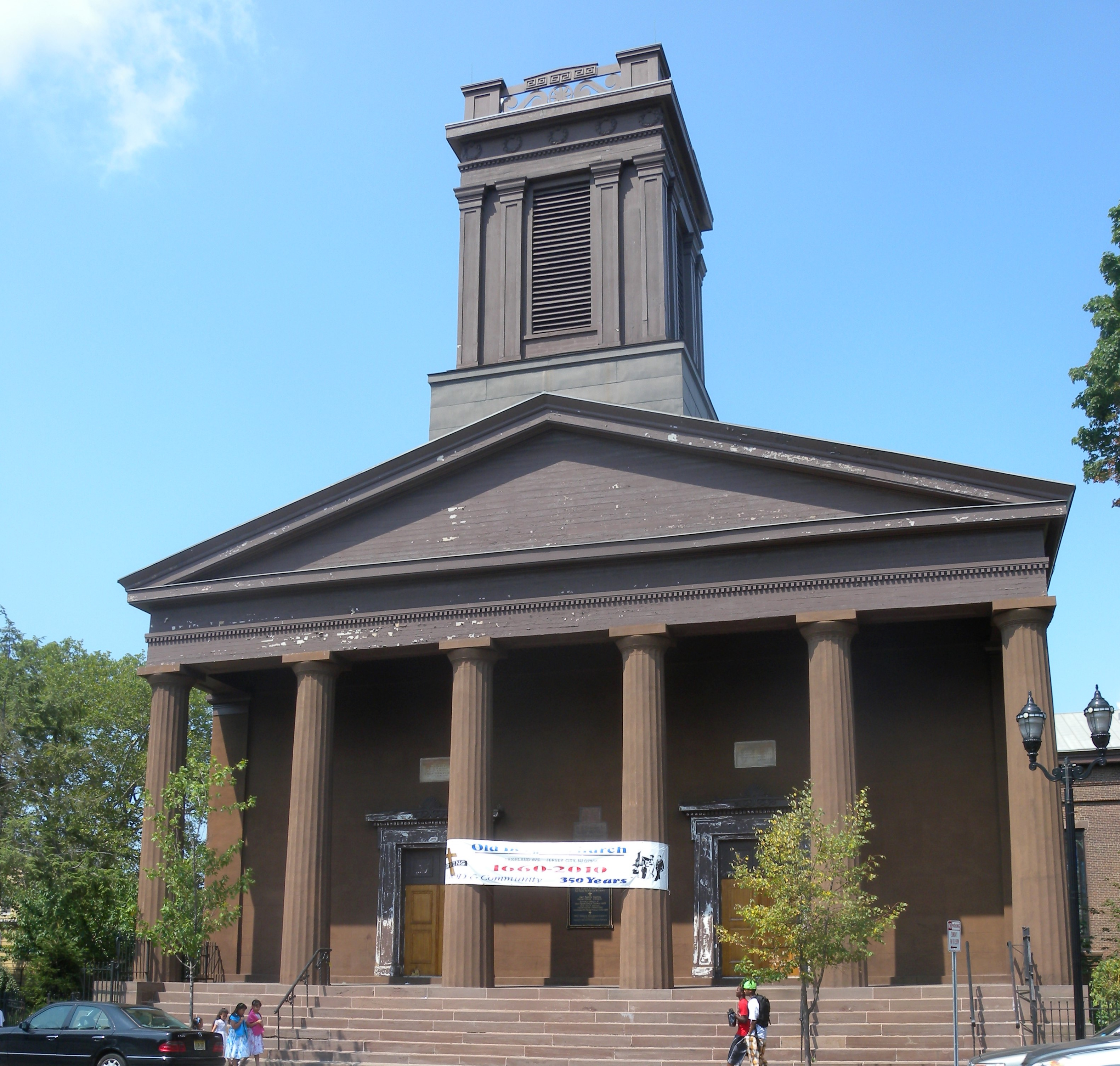 Looking west across Bergen Avenue at Old Bergen Church on a sunny midday. ZIP 07306.